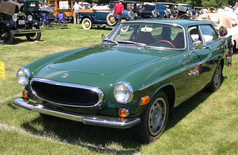 Volvo P1800ES Source: Photographed at the Bay State Antique Automobile Club's July 10, 2005 show at the Endicott Estate in Dedham, MA by User:Sfoskett